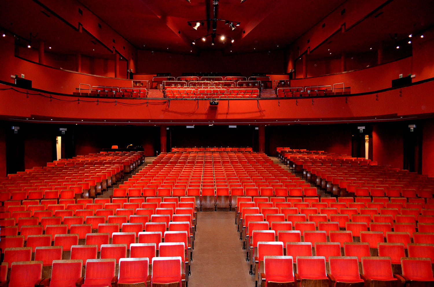 The Carcano Theater hall.